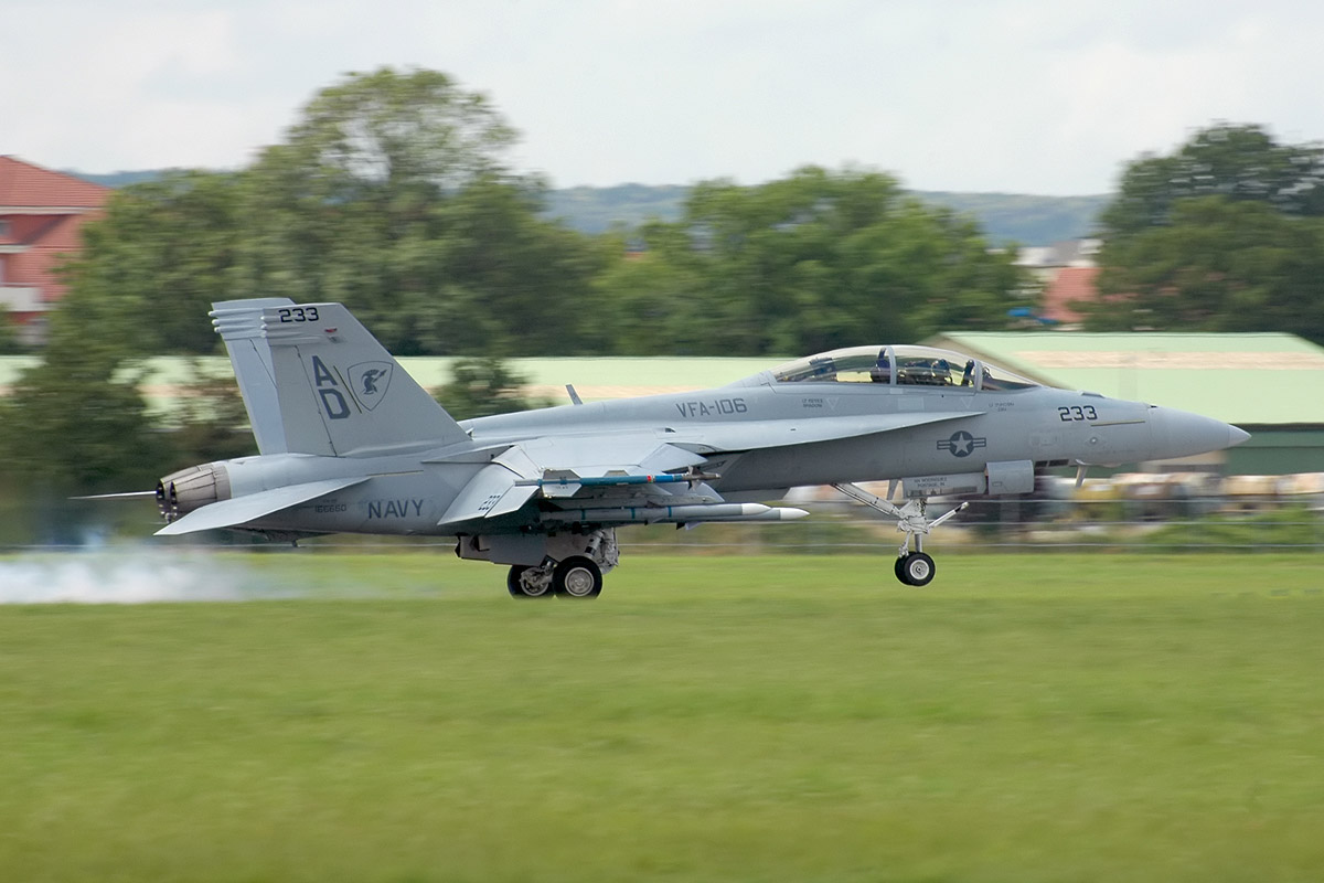 F/A-18F Super Hornet at Paris Air Show 2007